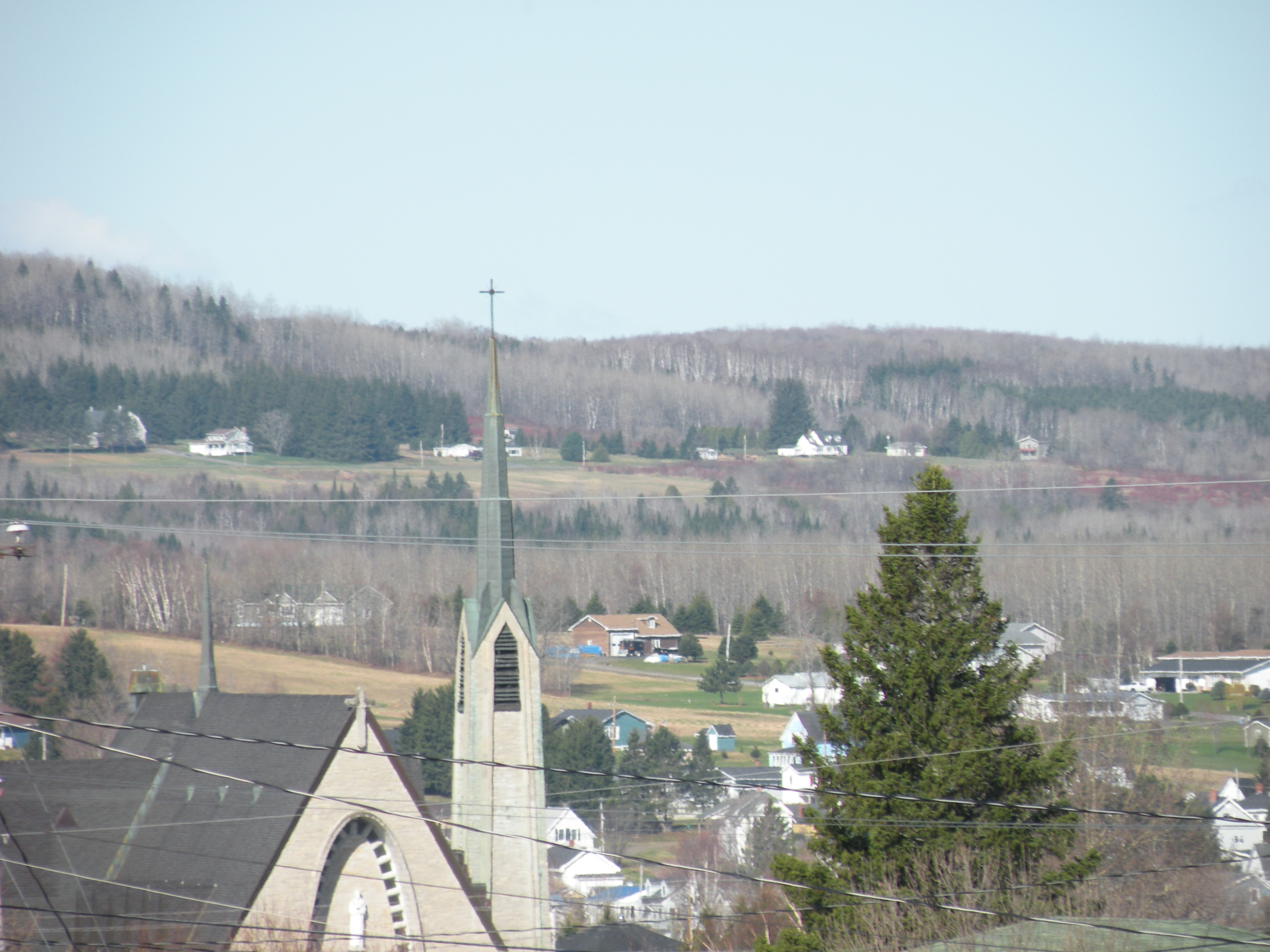 Saint-Léonard-de-Port-Maurice church in Saint-Léonard, New Brunswick, Canada.